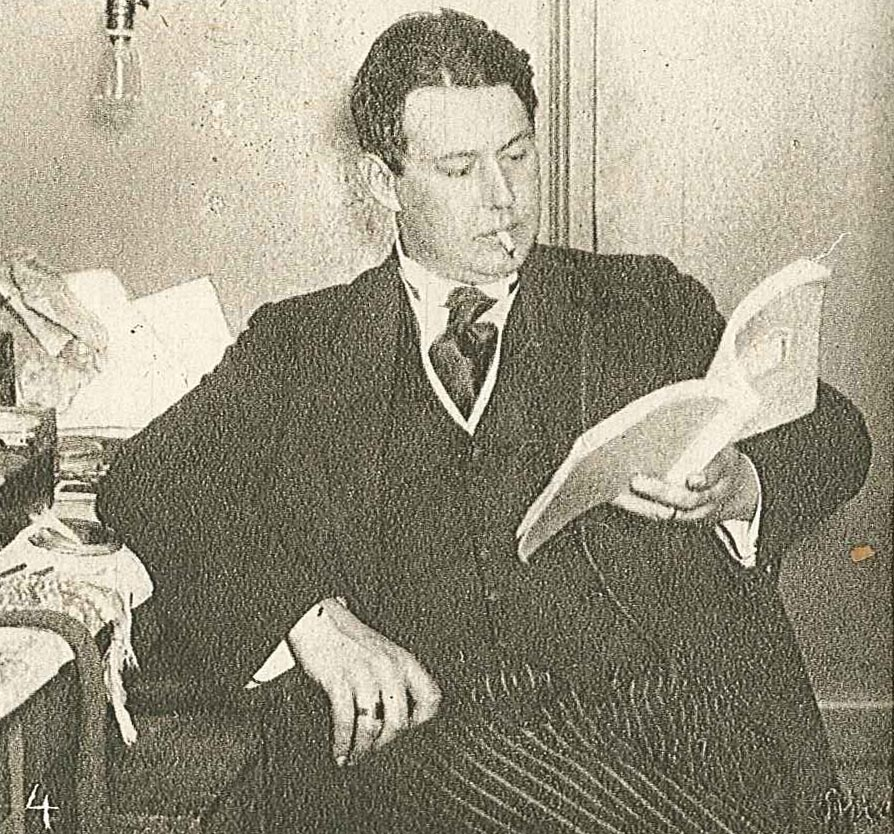 Allan Ryding (1882-1943), Swedish actor and theatre company owner, shown in his dressing room at some theatre.